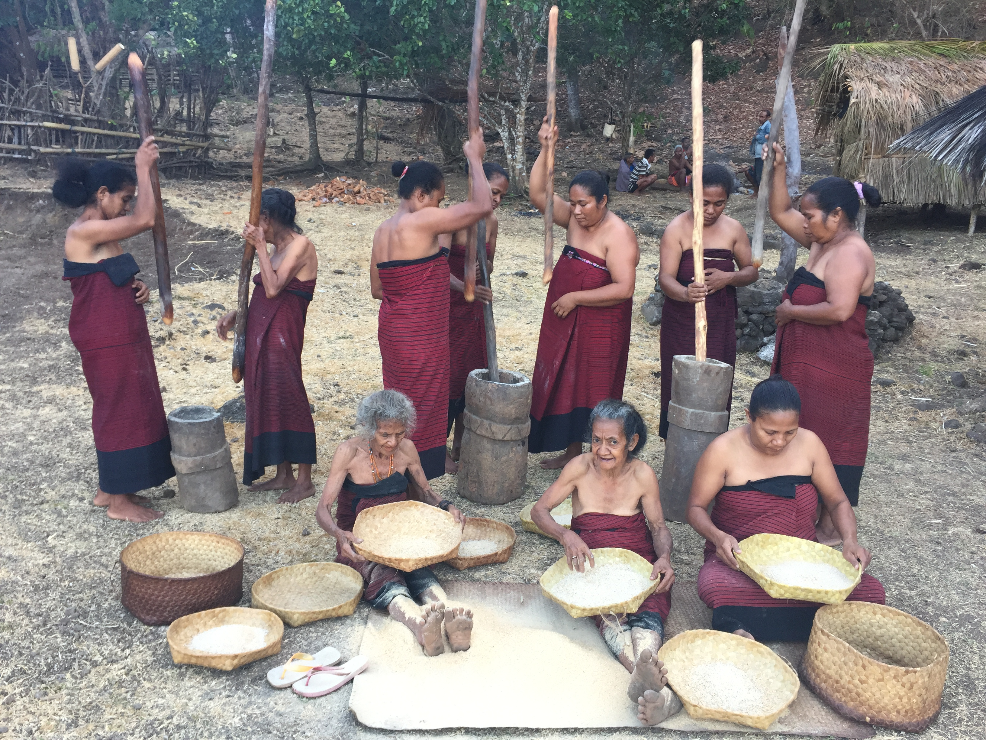 Baha Liurai. Pounding rice.